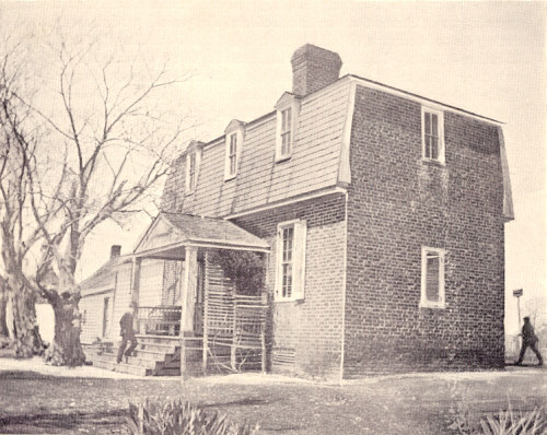 Picture of Porto Bello from postcards printed in Williamsburg, VA in 1900.